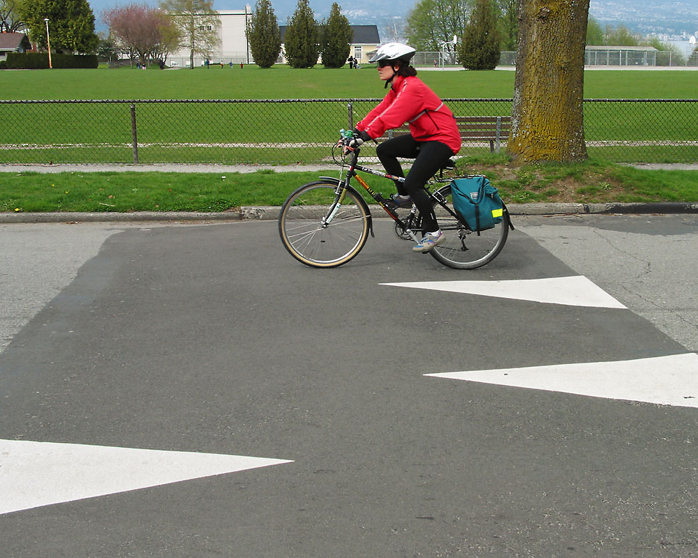 Cyclist on speed hump (likely located in British Columbia, Canada)